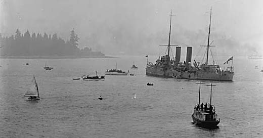 HMCS Rainbow in Vancouver harbour, 1914, accompanied by small boats, sent to guard the Komagata Maru. (excuse the title, Komagata Maru isn't in this photo) Cropped version, taken from City of Vancouver Archives: TITLE: [H.M.S. "Rainbow" in Vancouver harbour to watch over the "Komagata Maru"] DATE: [July 1914] EXTENT: 1 photograph: b&w glass negative; 17 x 22 cm SCOPE AND CONTENT: J.S. Matthews' notes with print or negative in Archives. LOCATION: GN dr 21 PART OF FONDS: Major Matthews' collection GEOGRAPHIC LOCATION: Vancouver (B.C.) PHOTOGRAPHER/STUDIO: Moore, W.J.